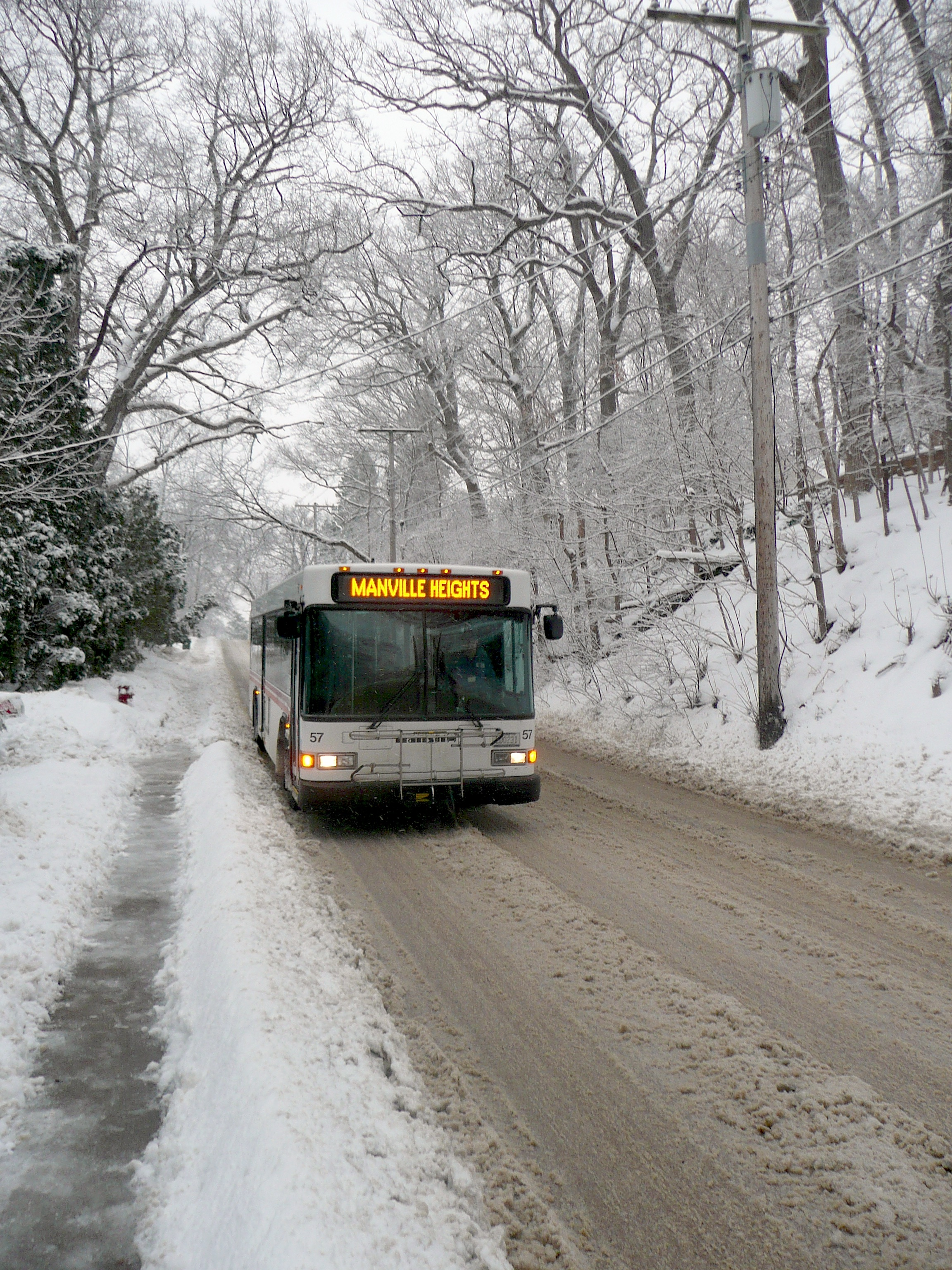 A bus, operated by Iowa City transit, on the Manville Heights bus route on a snowy morning. The bus is westbound on a 9% downhill grade on West Park Road. The bus, made by Gillig in 2007, is equipped with a bicycle carrier between the headlights.